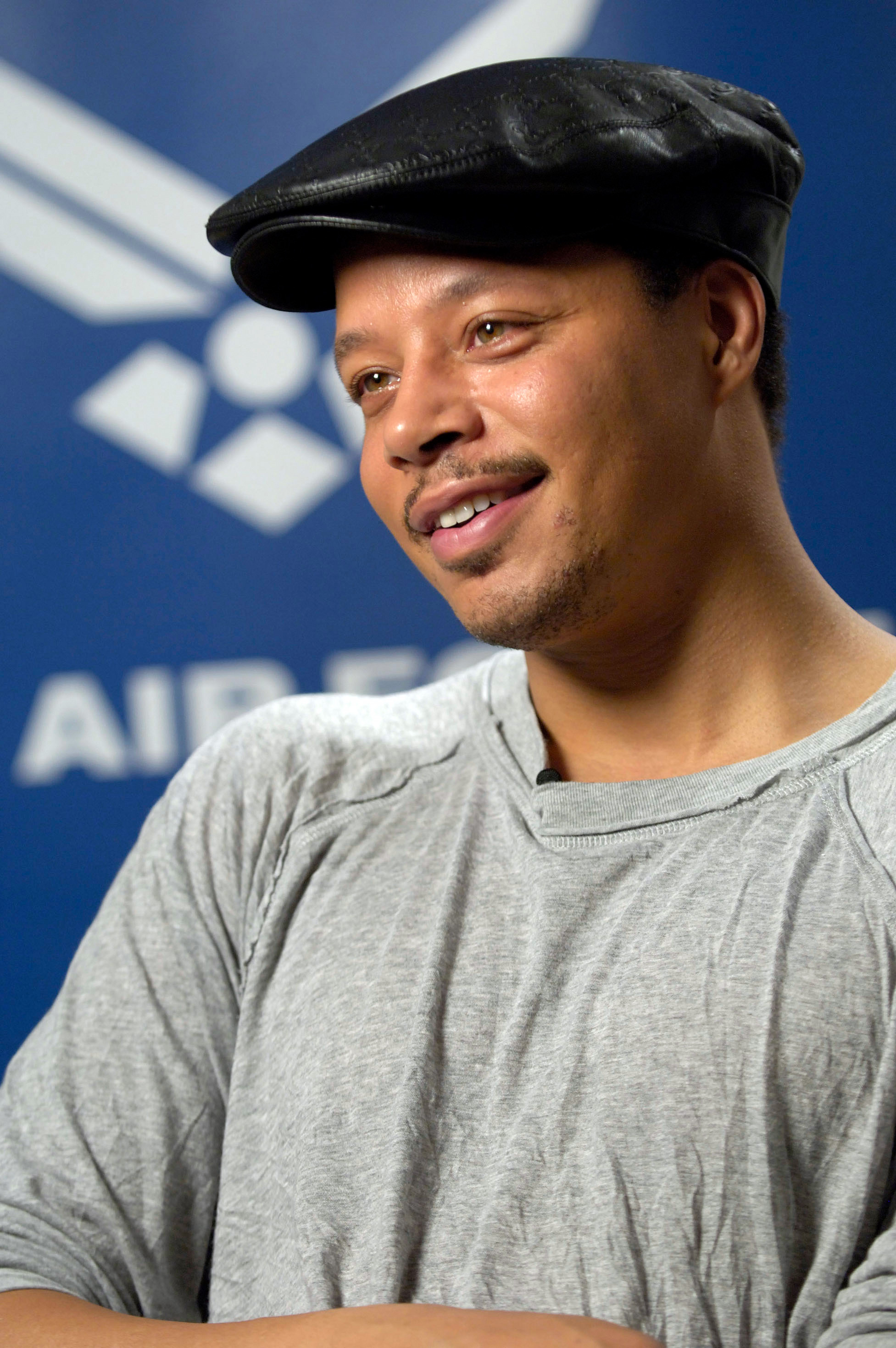 Oscar-nominated actor Terrence Howard describes his experiences and impressions of the Air Force during an interview May 27 in New York. Mr. Howard visited two Air Force bases and trained with Airmen while preparing for his role as Lt. Col. James Rhodes in the movie Iron Man.